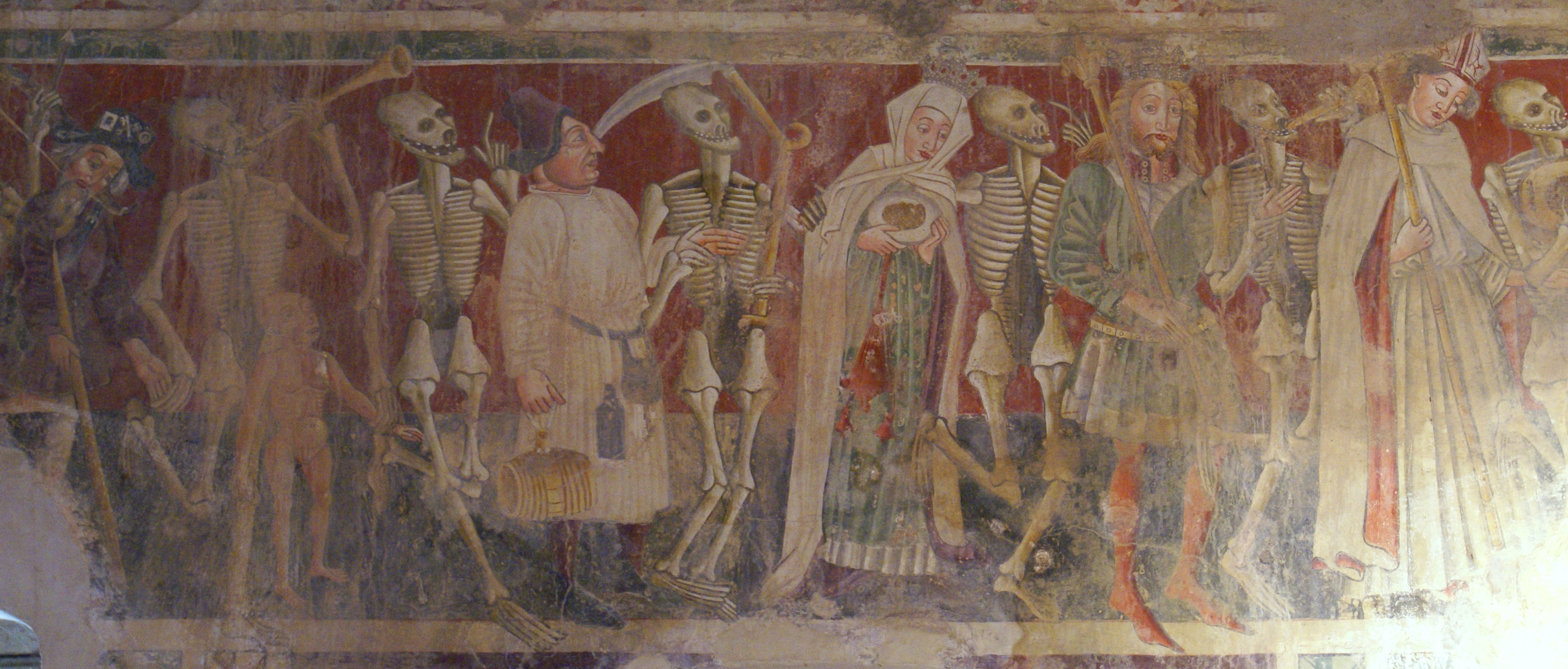 Dance of Death of the church of St. Mary in Beram (part)